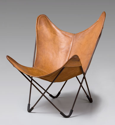 Antonio Bonet, Juan Kurchan and Jorge Ferrari Hardoy: B.K.F. Chair commonly referred to as butterfly chair or Hardoy chair designed 1938/40, steel frame and one-piece leather seat.